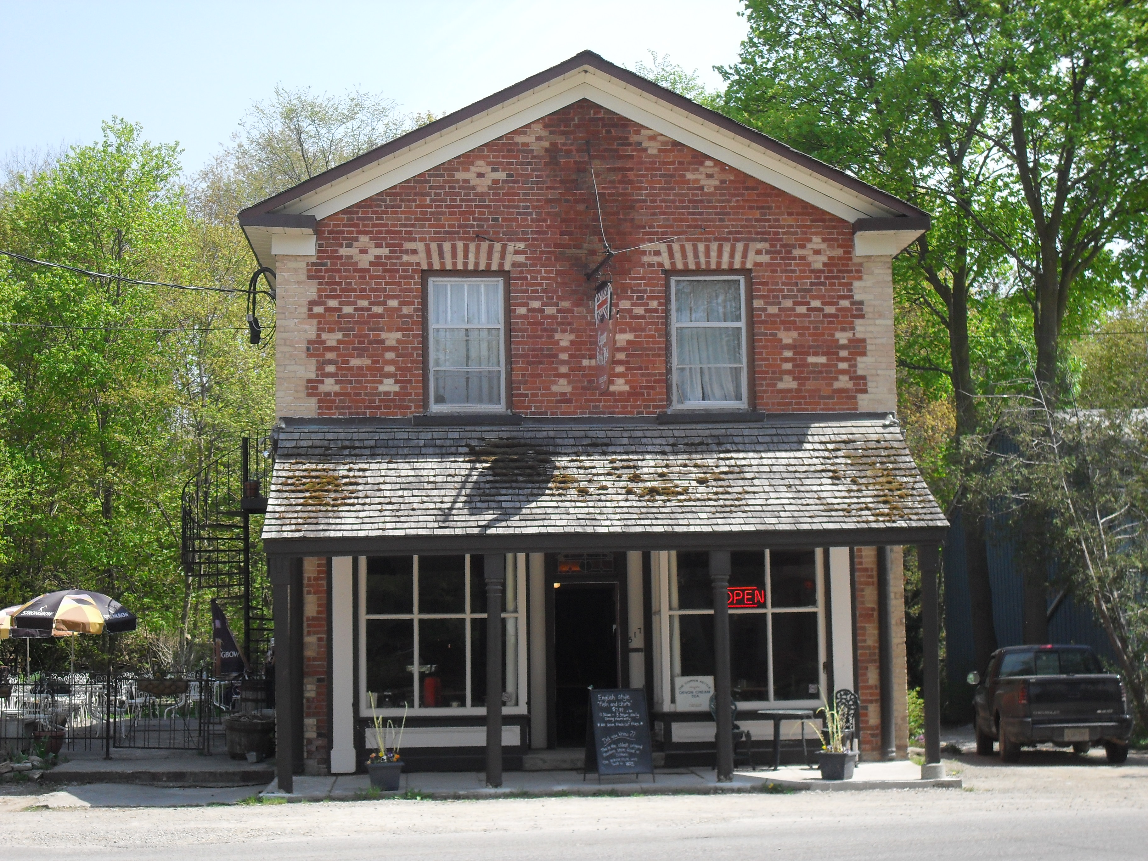 Copper Kettle Inn in Glen William, On, Canada